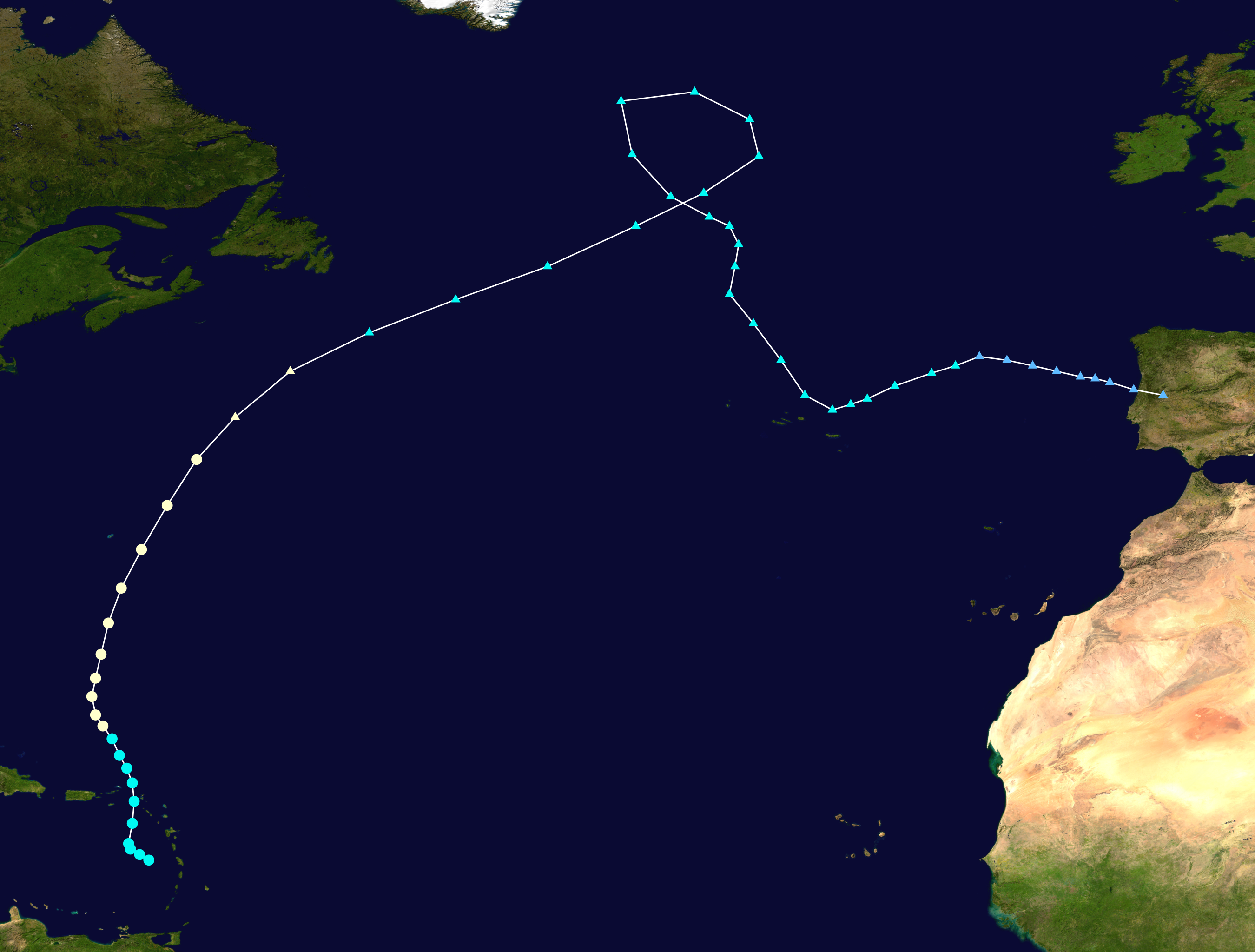 Track map of Hurricane Rafael of the 2012 Atlantic hurricane season. The points show the location of the storm at 6-hour intervals. The colour represents the storm's maximum sustained wind speeds as classified in the Saffir–Simpson scale (see below), and the shape of the data points represent the nature of the storm, according to the legend below. Saffir–Simpson scale Tropical depression≤38 mph≤62 km/h Category 3111–129 mph178–208 km/h Tropical storm39–73 mph63–118 km/h Category 4130–156 mph209–251 km/h Category 174–95 mph119–153 km/h Category 5≥157 mph≥252 km/h Category 296–110 mph154–177 km/h Unknown Storm type Tropical cyclone Subtropical cyclone Extratropical cyclone / Remnant low / Tropical disturbance / Monsoon depression